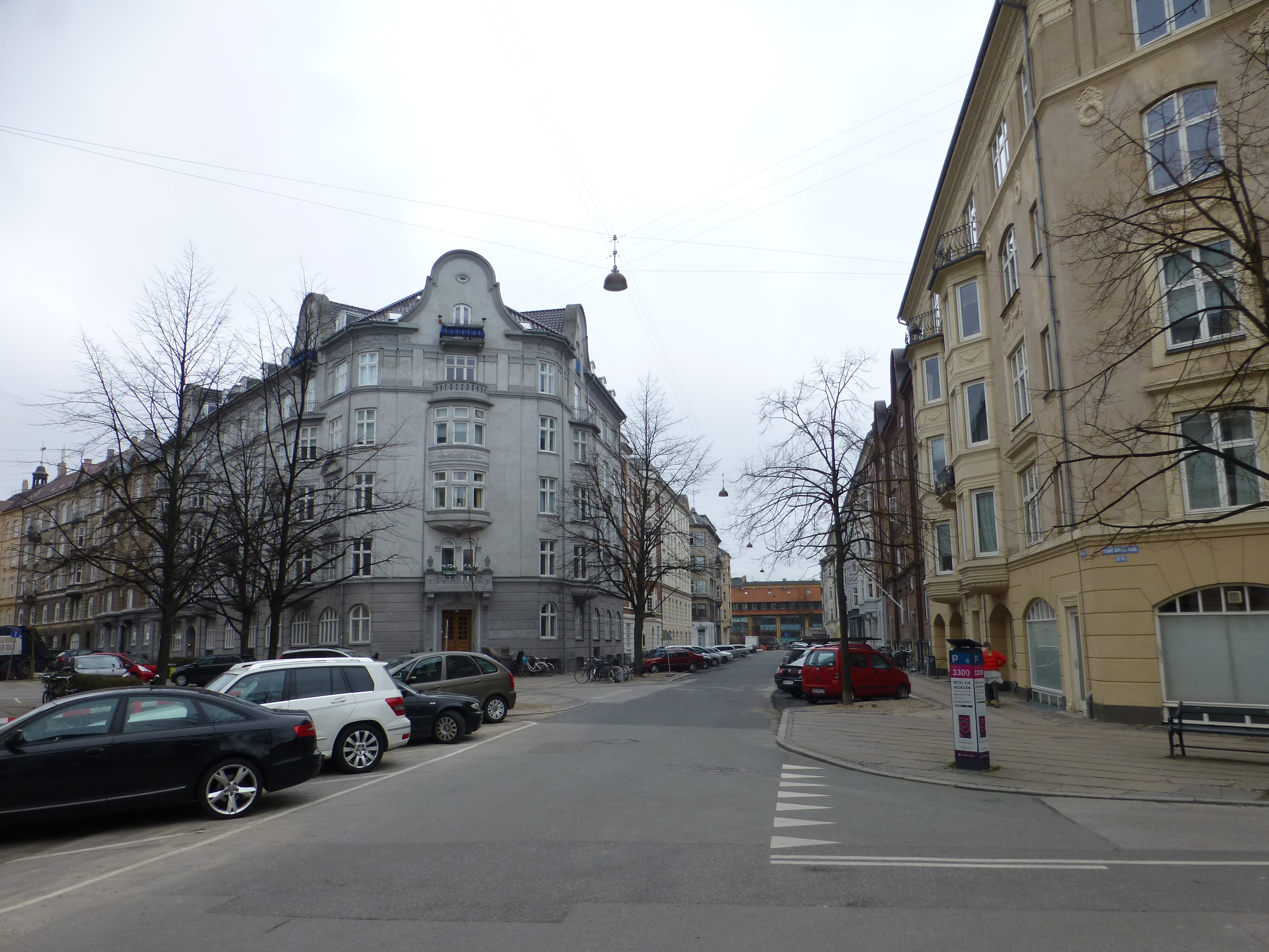 The street Ribegade in Østerbro in Copenhagen.